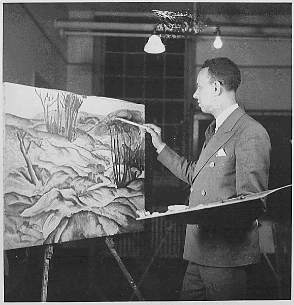 Hale Woodruff, artist and teacher